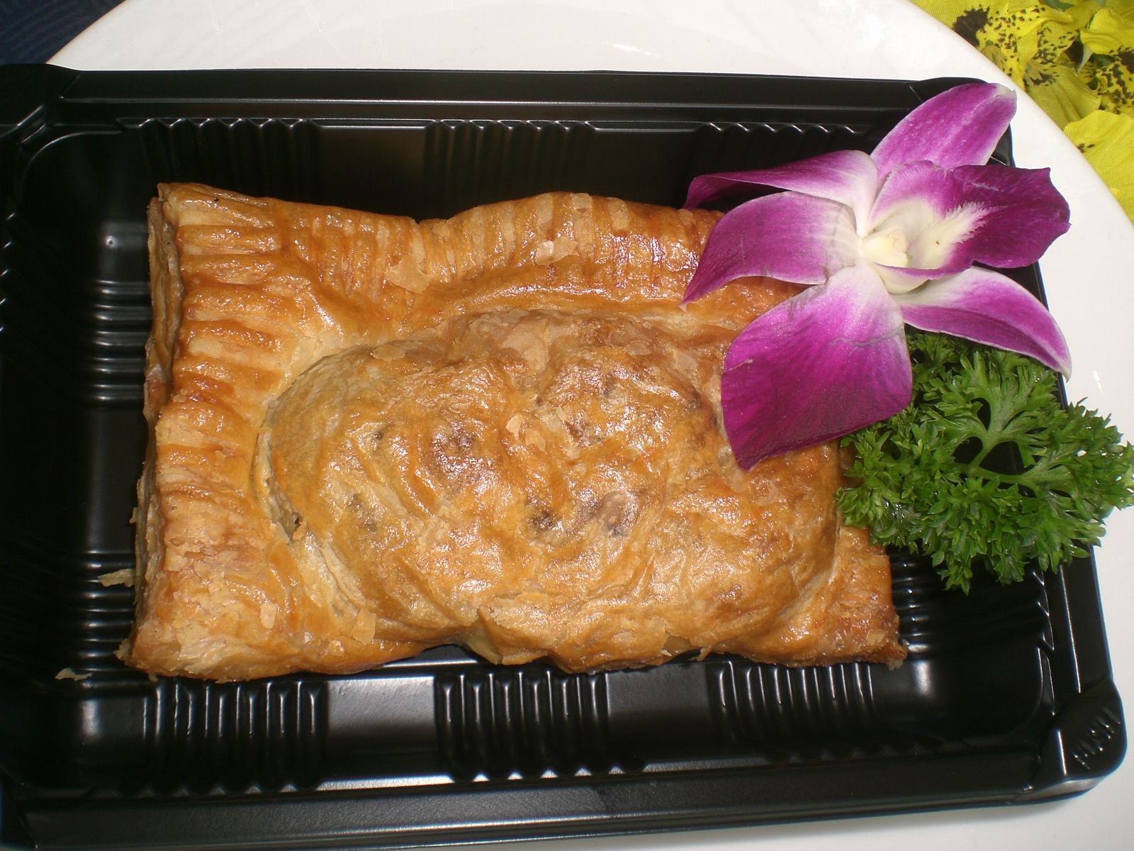 赤鱲角亞洲國際博覽館zh:快餐店zh:牛肉咖喱角